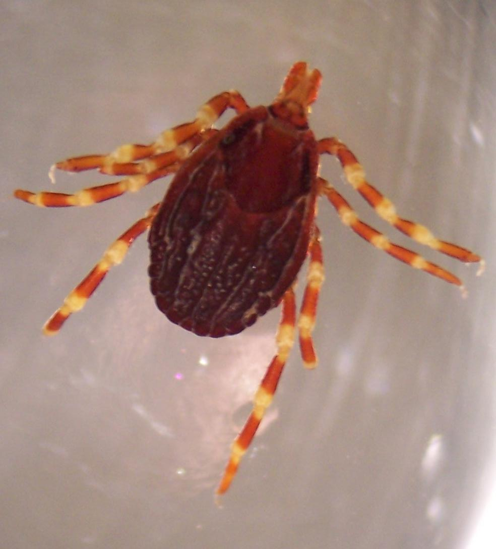 Hyalomma marginatum, in alcohol, picture taken through a dissecting microscope.